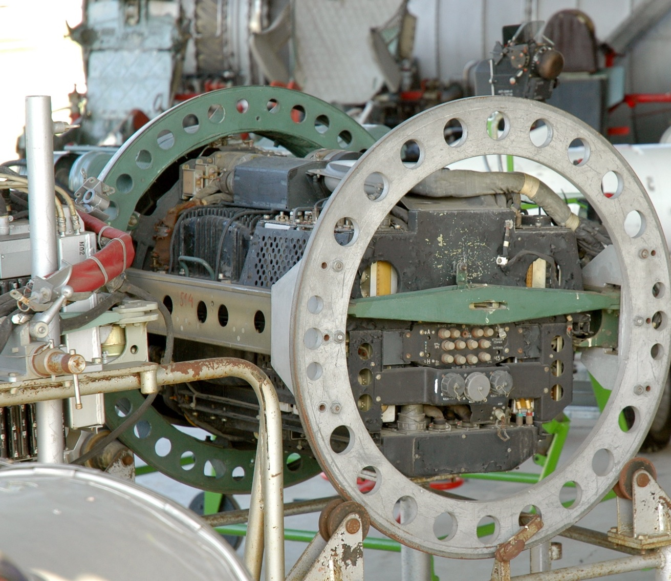 Rear view of RP-21MA radar (used on MiG-21MF), displayed at the Hungarian Aviation Museum, Szolnok